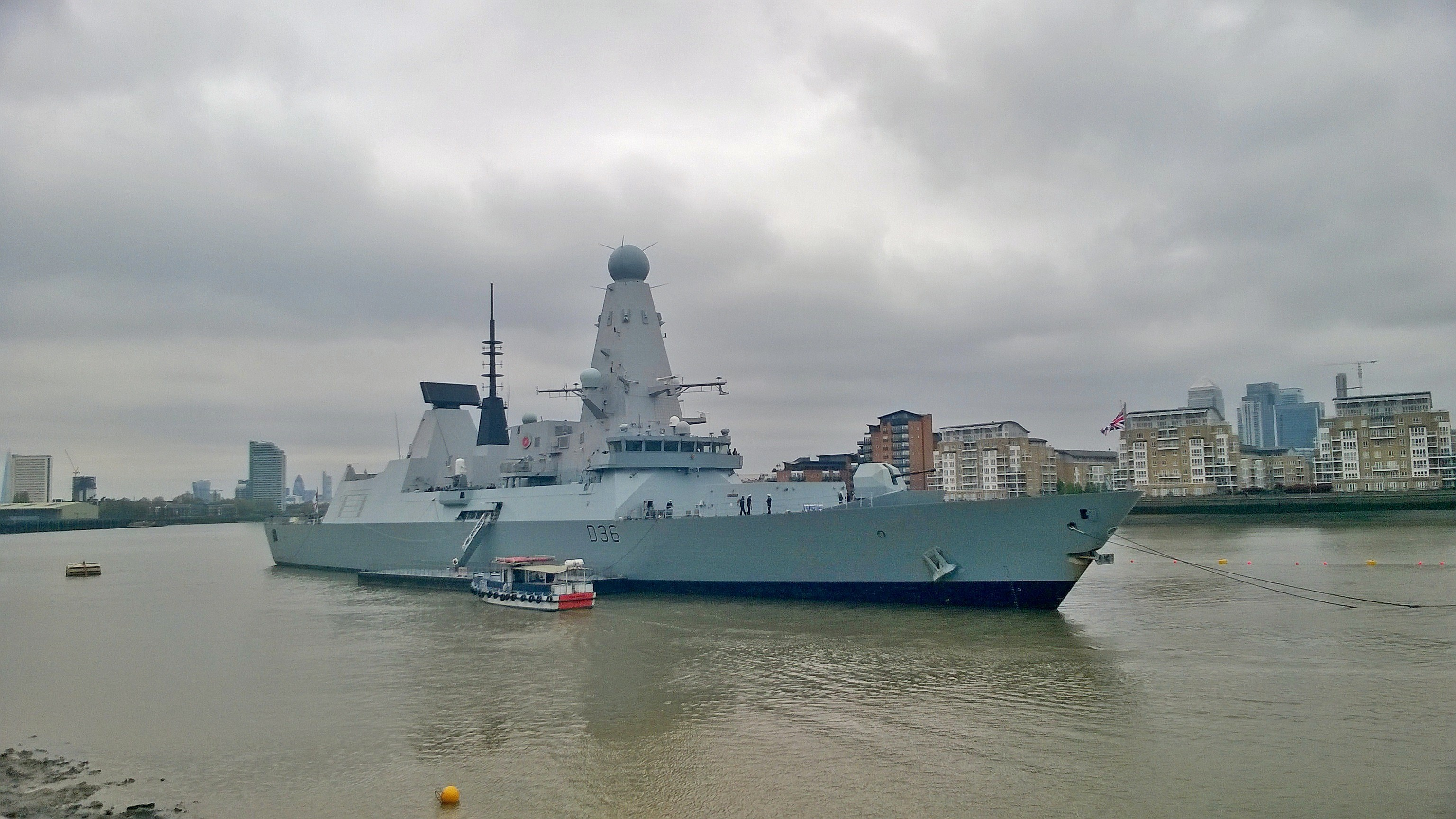 The Type 45 destroyer HMS Defender at Greenwich in London